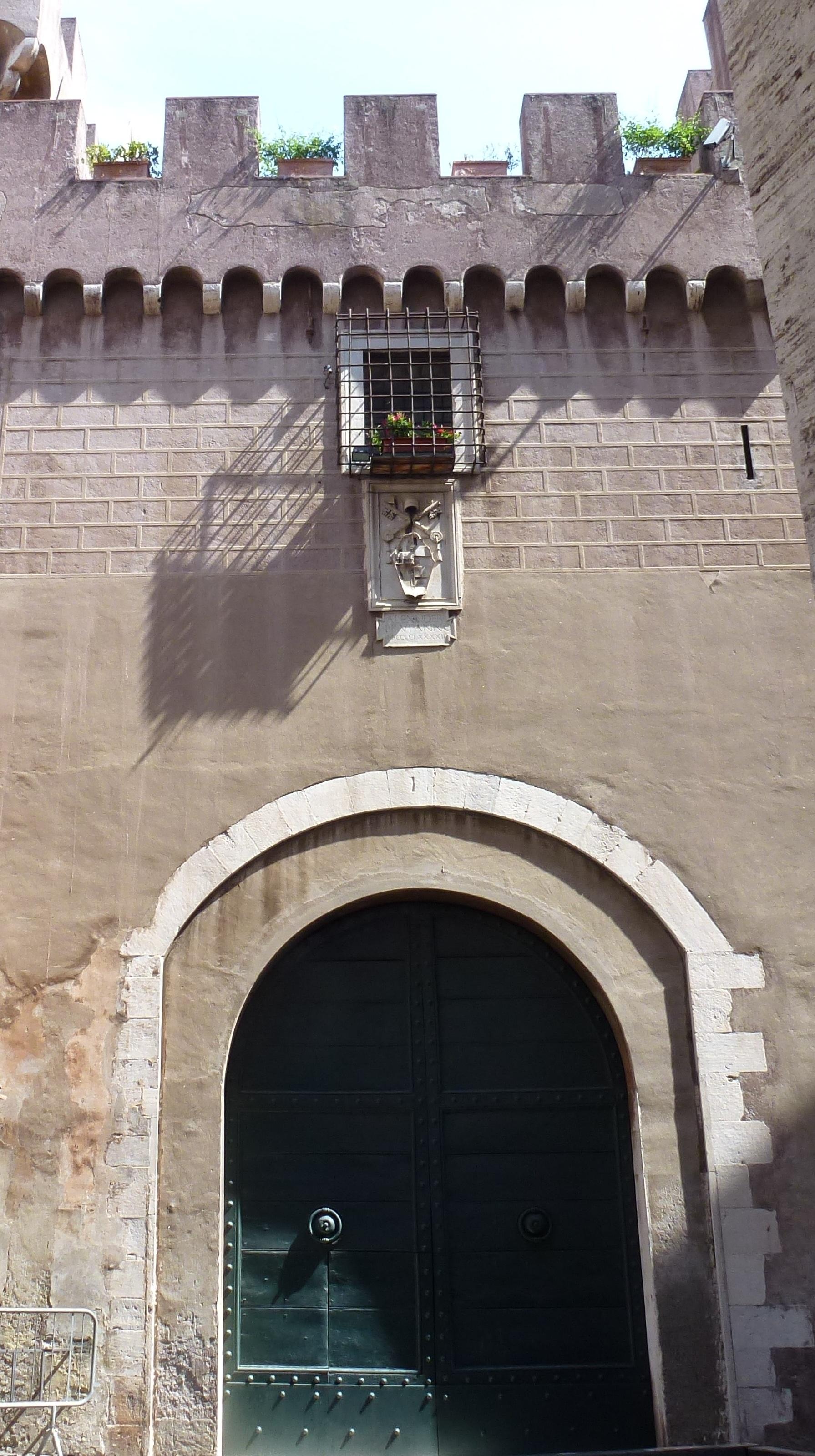 Porta San Pellegrino, the Vatican